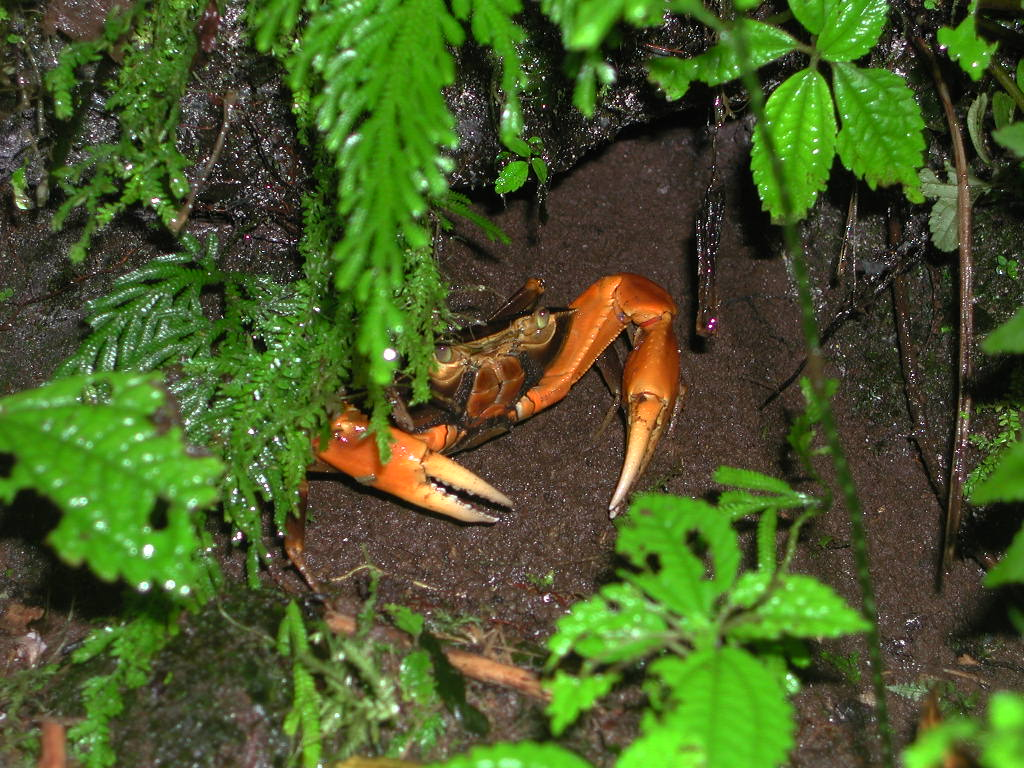 Land crab (Guinotia dentata) in Dominica